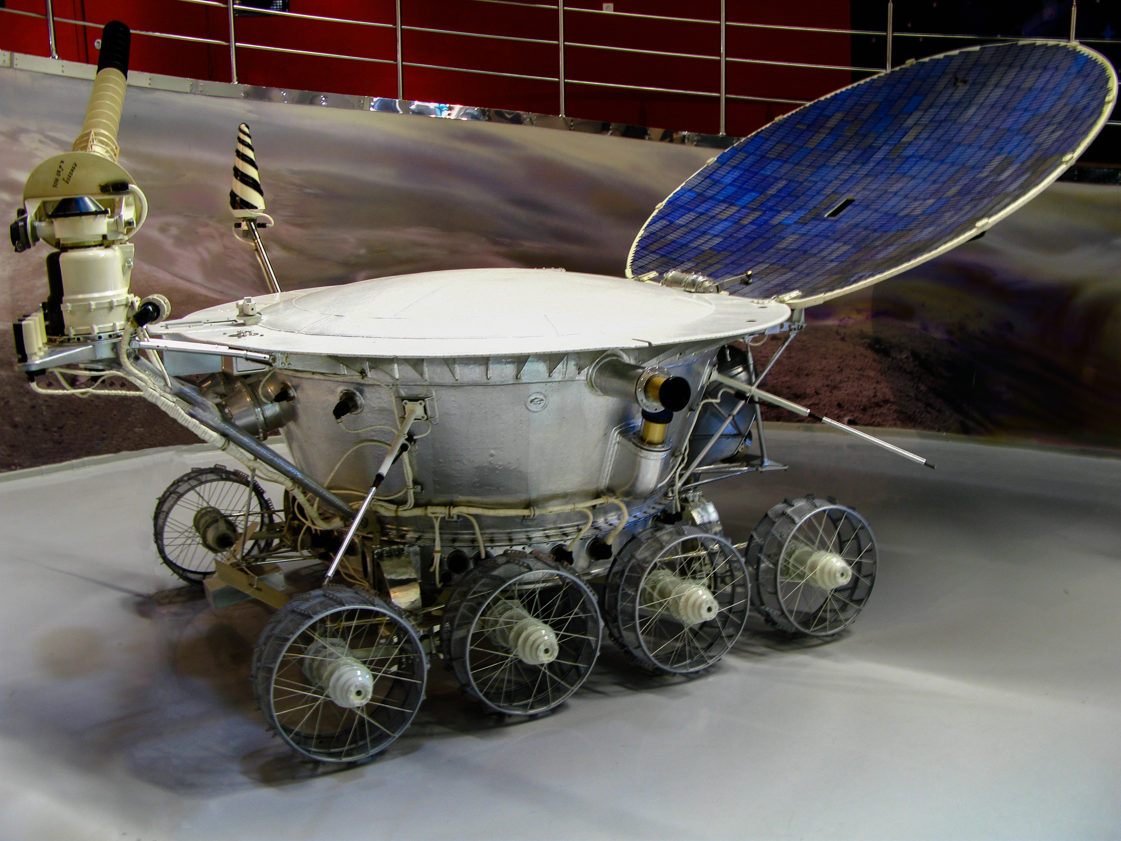 Soviet Lunokhod moonrover, from 70-ies of 20th century.